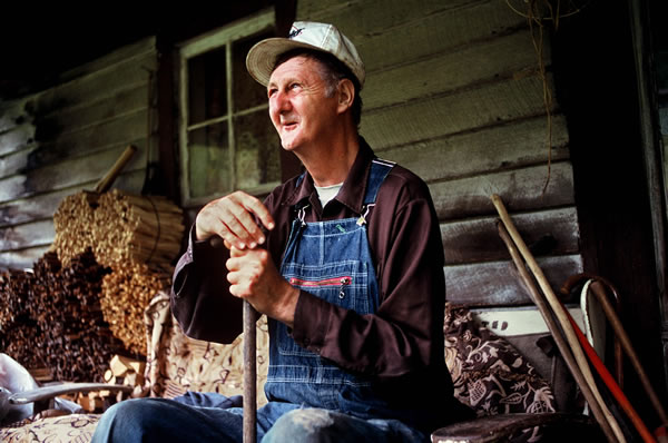 Ray Hicks